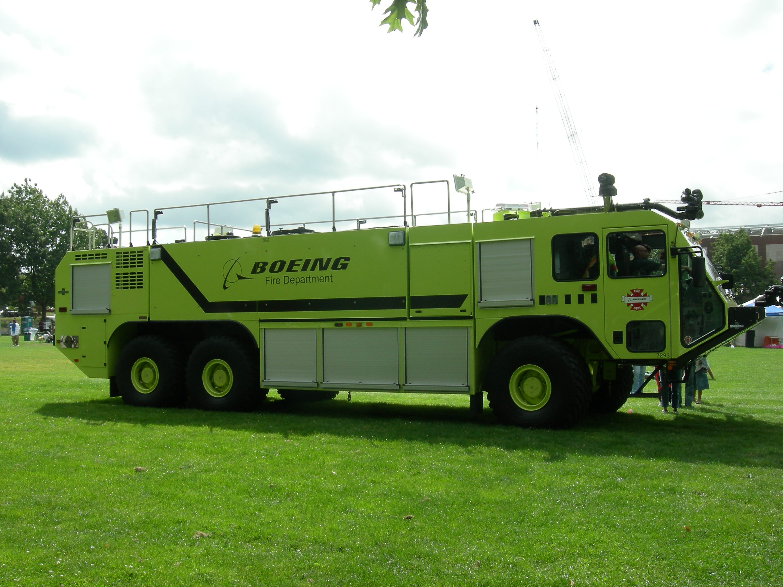 Fire engine owned by Boeing Fire Department. Photographed at Garfield High School, Seattle, Washington.